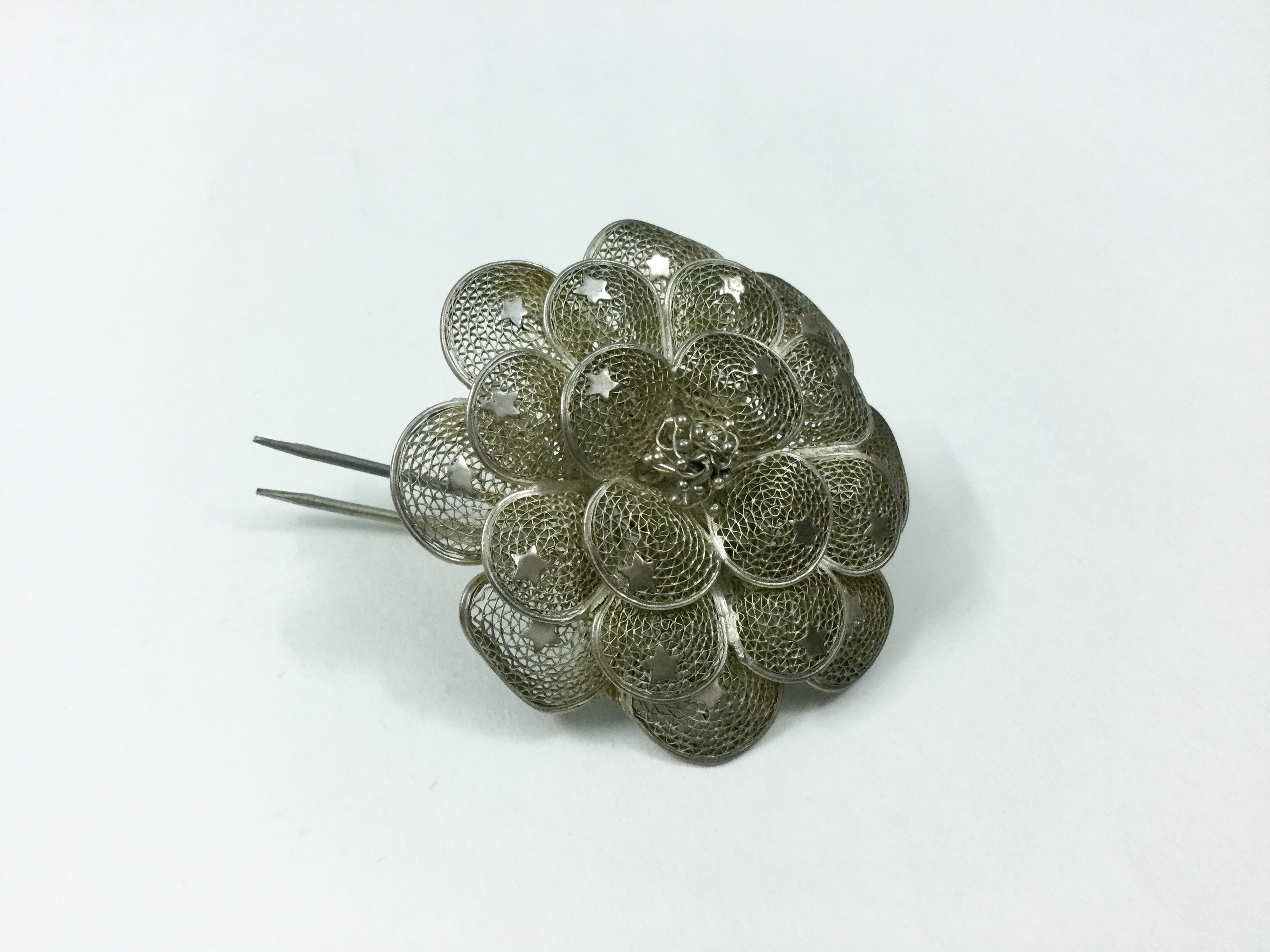 The 'Bela Kanta' or 'Juda Phula' is one of the important ornaments in Odia Tradition. It is meant to be put in the chignon of a lady. This silver flower was given to my mother by my grandmother.